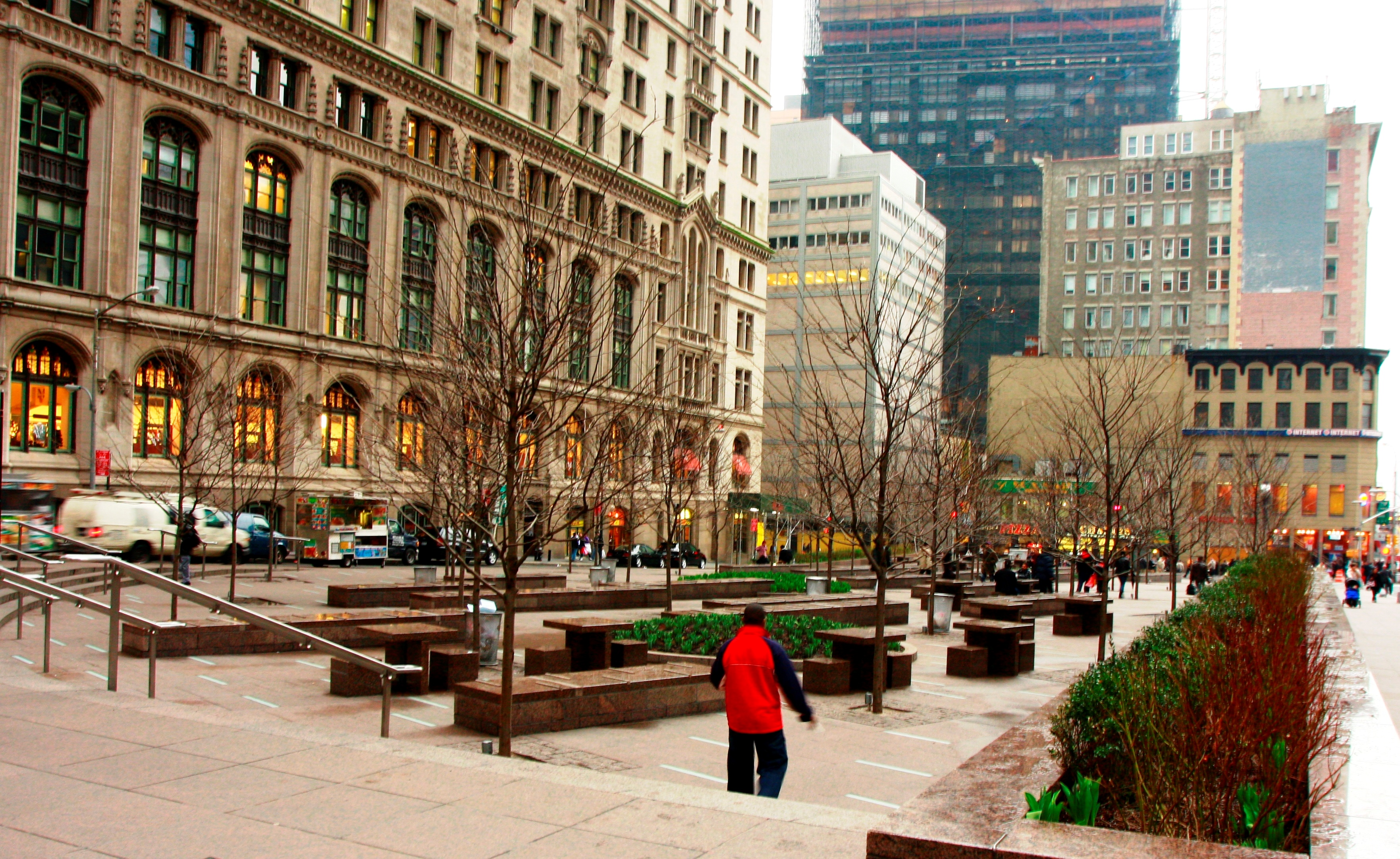 This photo is of Wikipedia Takes Manhattan location code 168, Zuccotti Park.